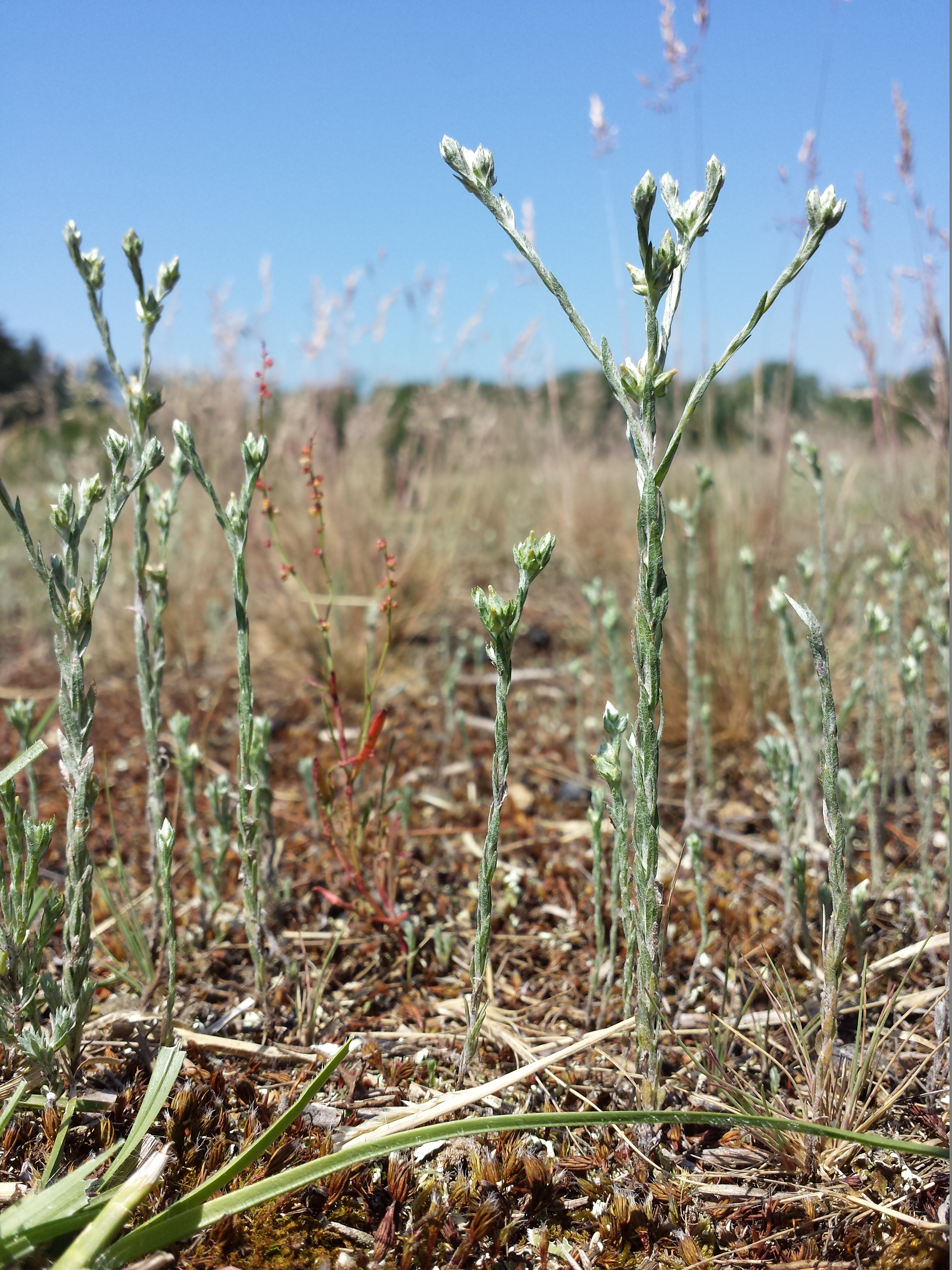 Habitus Taxonym: Filago minima ss Fischer et al. EfÖLS 2008 ISBN 978-3-85474-187-9; det. Gergely Király 2015-06-05 Location: dry grassland on acid sand near Darány, Somogy County, Hungary - ca. 130 m a.s.l. Habitat: dry grassland on acid sand